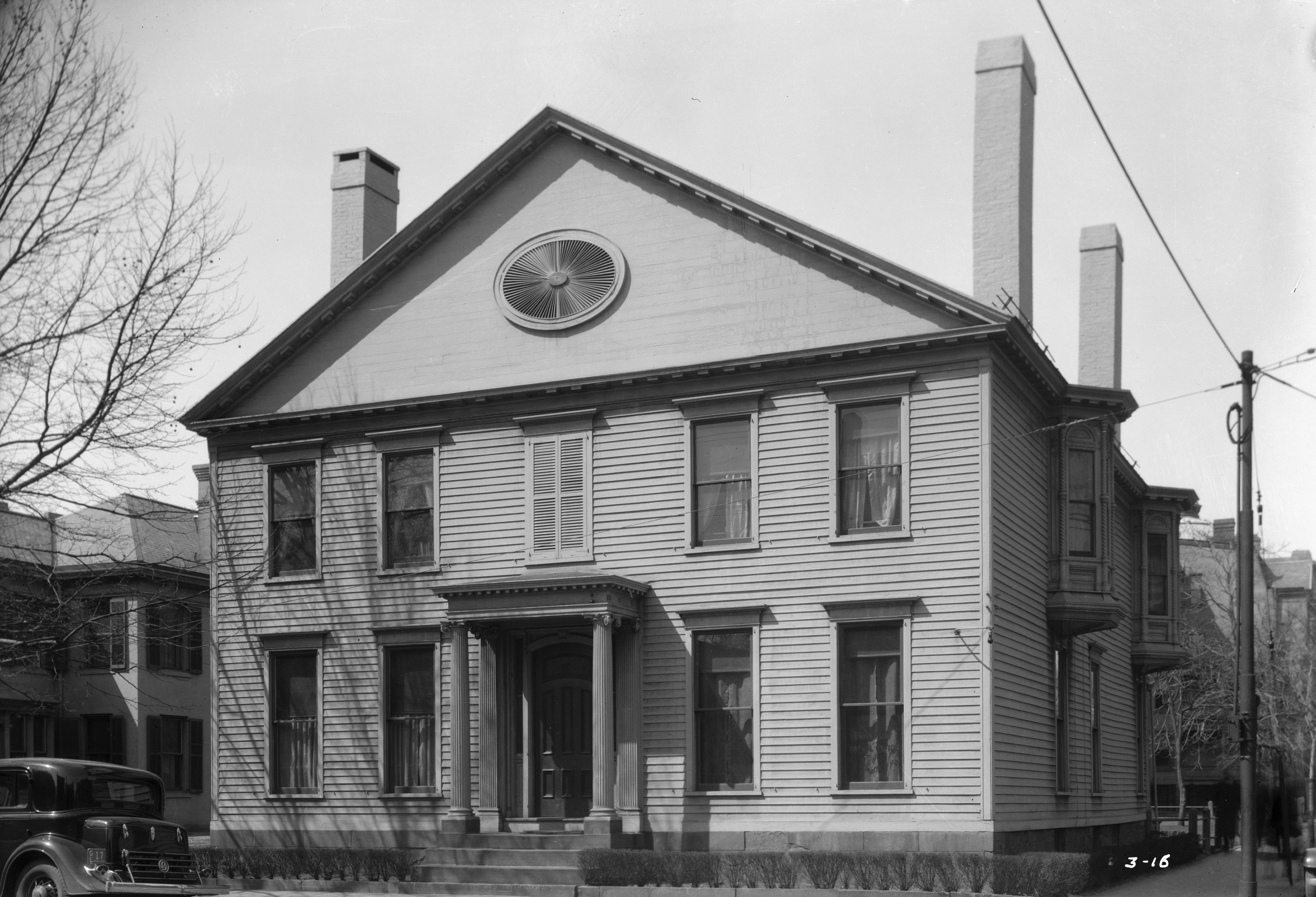 1. Historic American Buildings Survey Joseph C. Berlepsch, Photographer March 31, 1934 NORTH EAST ELEVATION (FRONT) - Noah Webster House, Temple & Grove Streets (moved to Dearborn, MI), New Haven, New Haven County, CT. Building constructed in 1822.